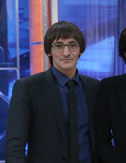 Dmitry Medvedev's interview with Russian journalists